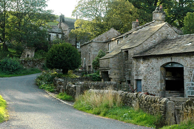 Houses and Barns in Thorpe Village